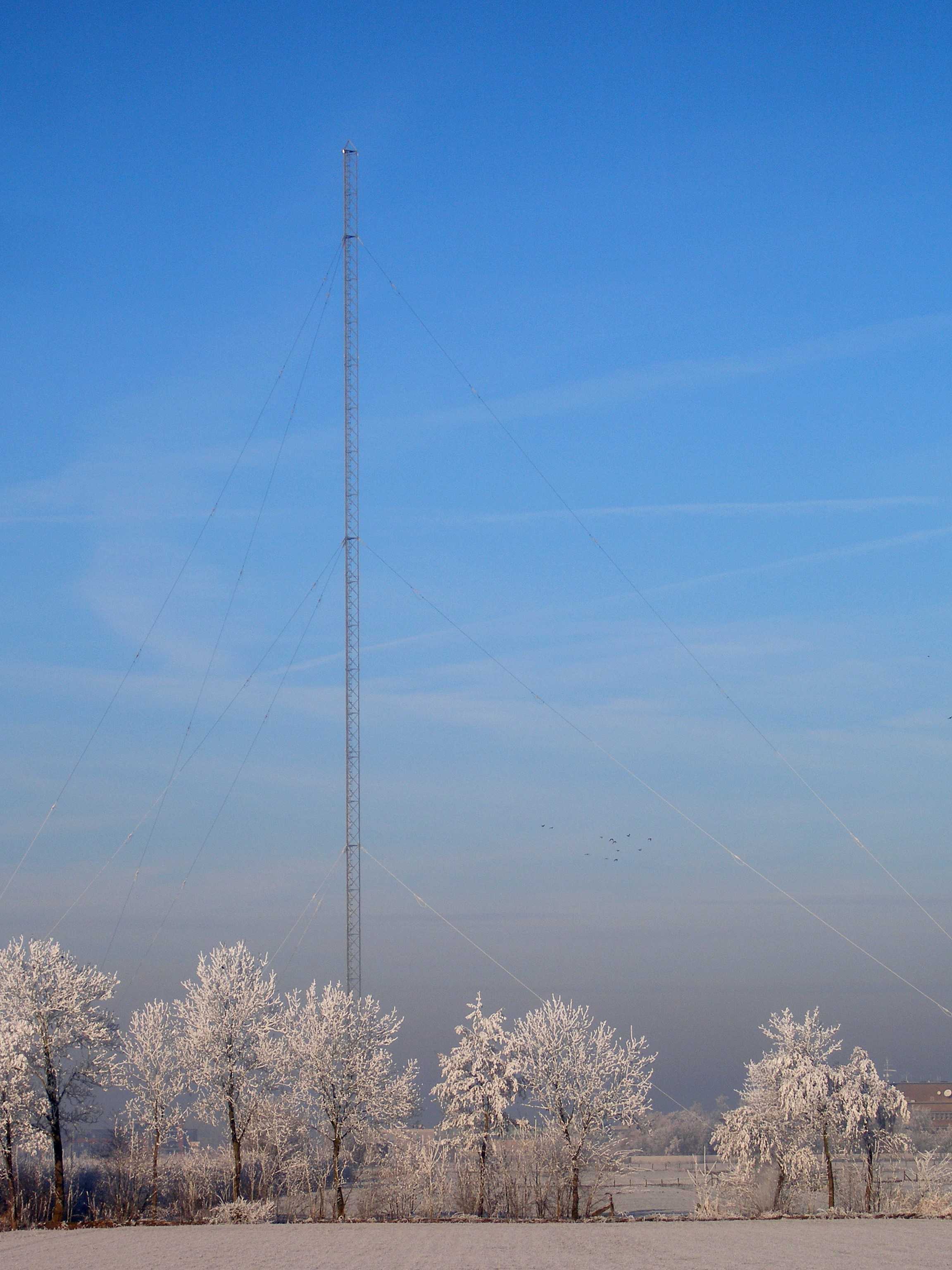 Mediumwave radio transmitter mast in Lopik (Prov.Utrecht), the Netherlands.